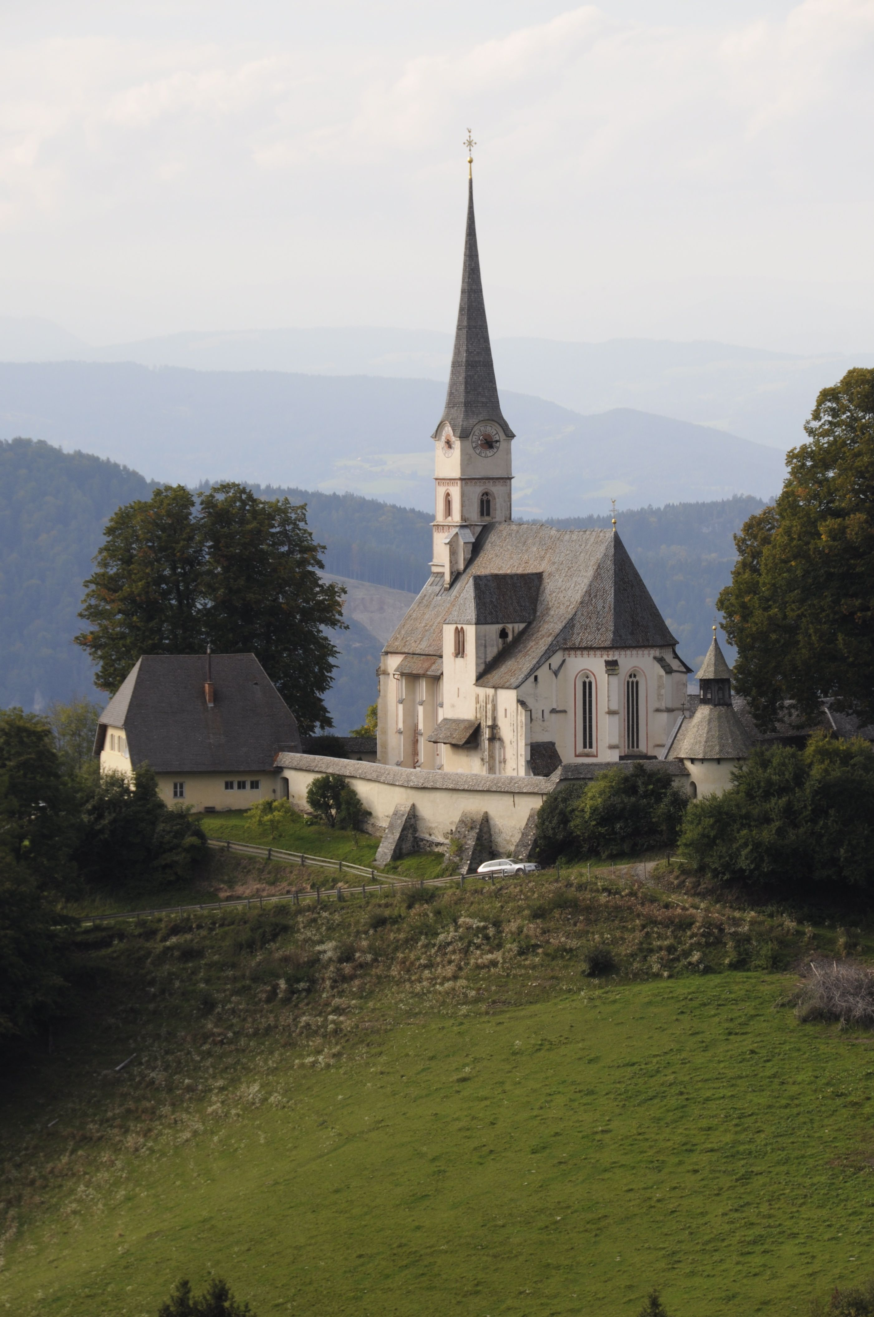 Parish and pilgrimage church Our Lady at Hochfeistritz, municipality Eberstein (Kärnten), district Saint Veit on the Glan, Carinthia / Austria / EU